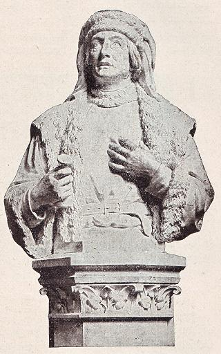 Sidebust in the monument-group № 16 in the former Siegesallee in Berlin commemorating to Berlin’s Burgomaster Wilhelm von Blankenfelde. Sculptor: Alexander Calandrelli, the sculpture was inaugurated on 22 December 1898.